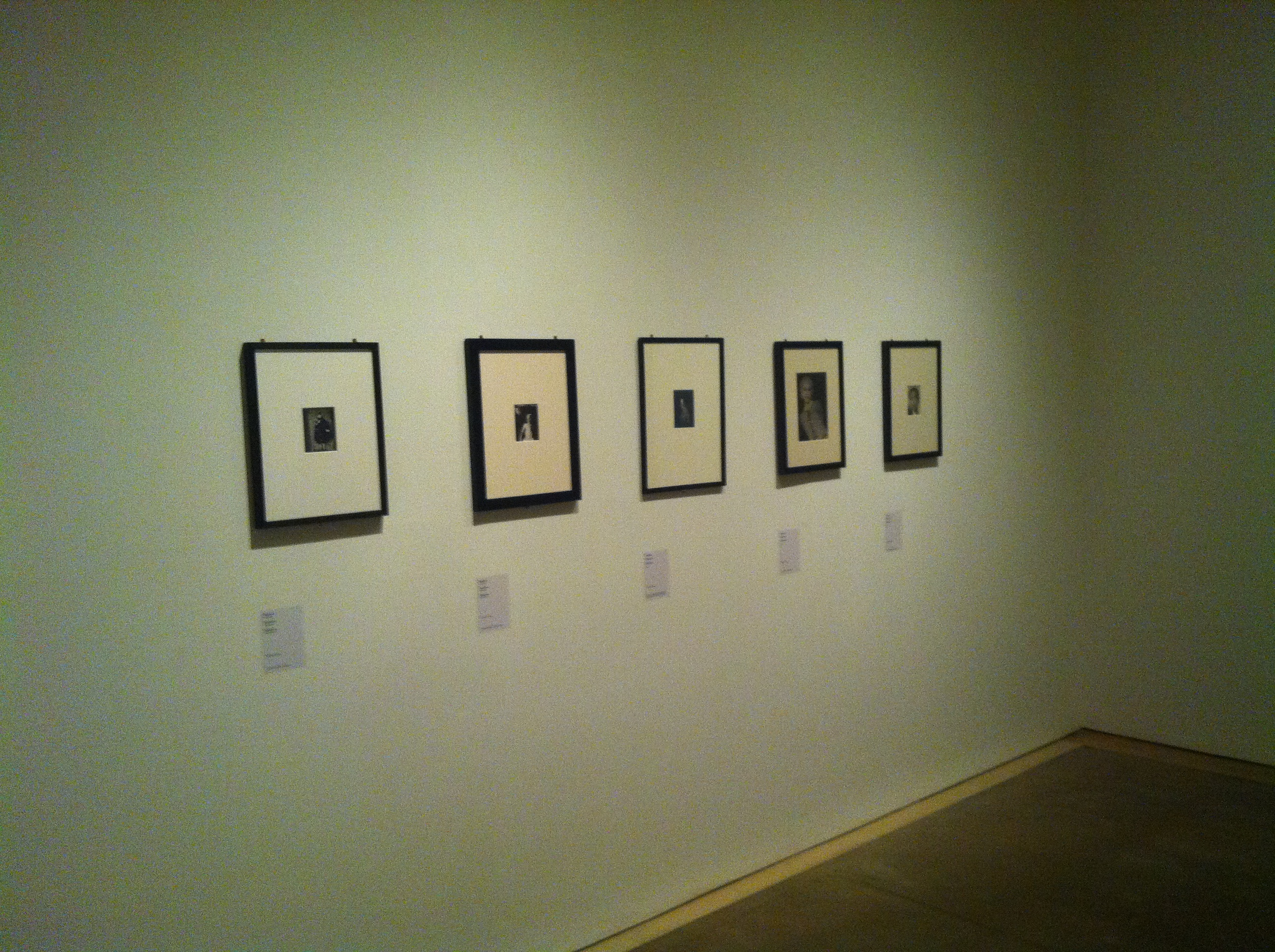 Palau de la Virreina- Claude Cahun Exhibit at Barcelona in 2012